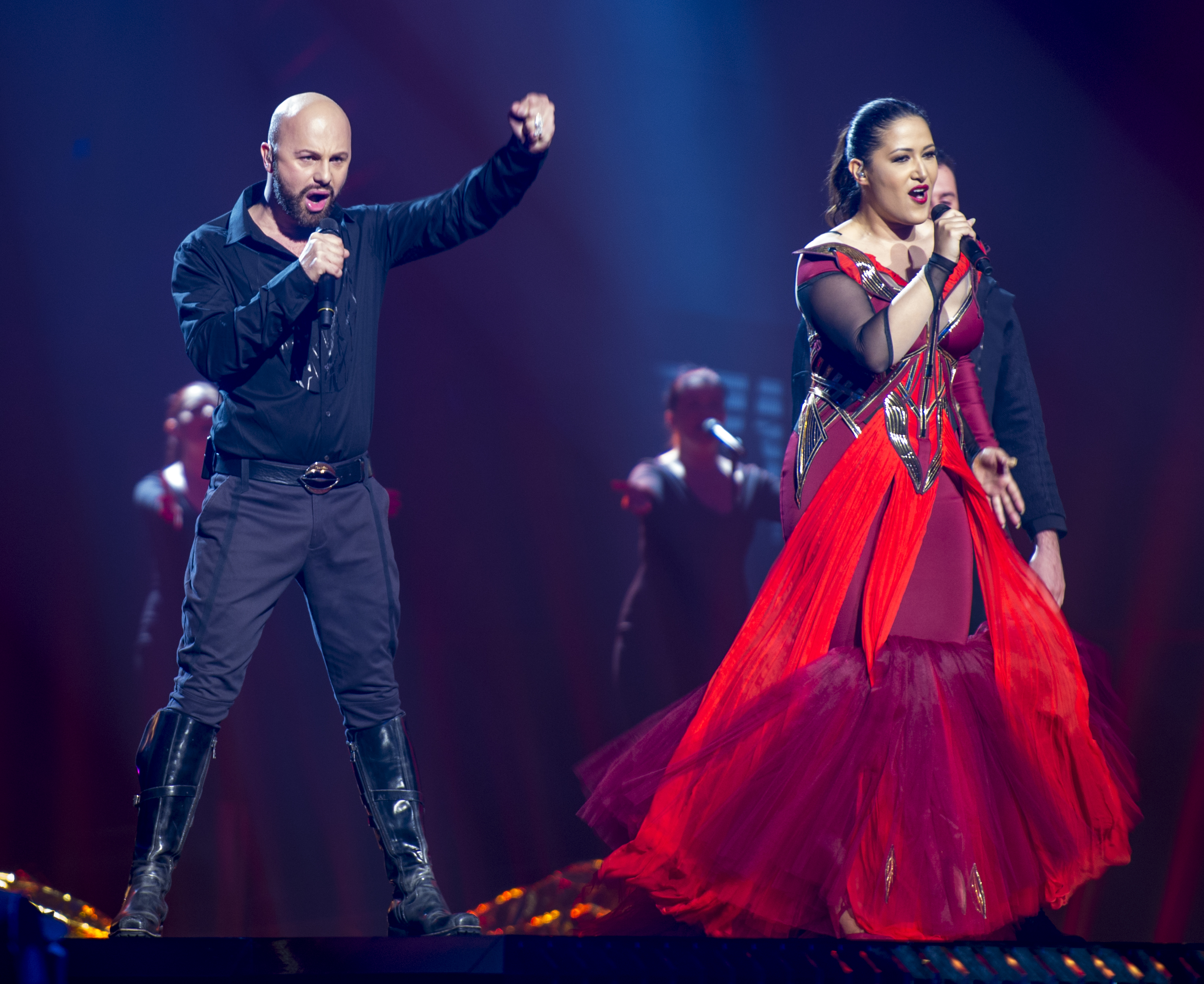 Dalal & Deen feat. Ana Rucner and Jala representing Bosnia and Herzegovina with the song "Ljubav je" during a rehearsal before the first semi final of the Eurovision Song Contest 2016 in Stockholm. (Help translate this text)